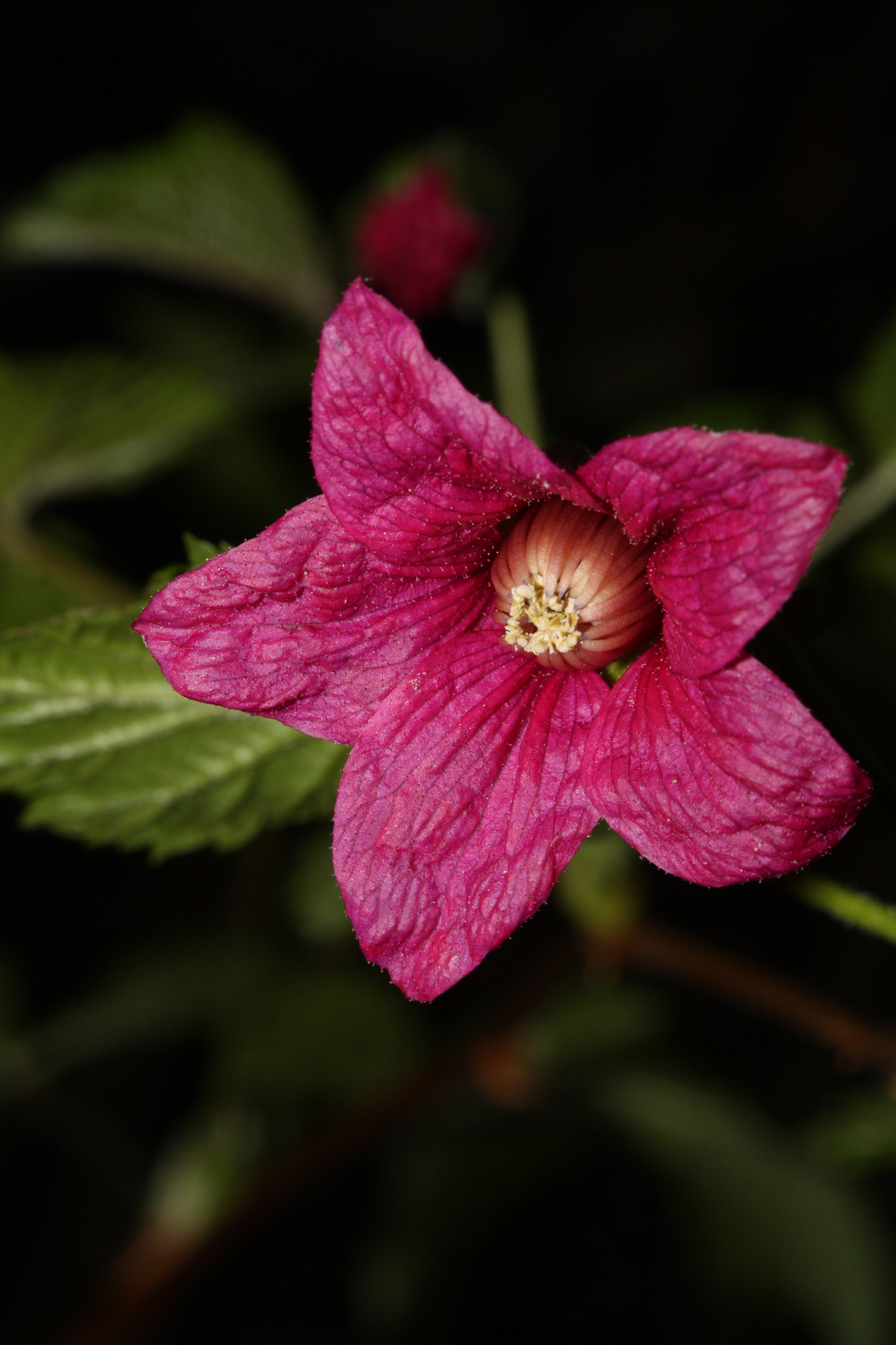 Salmonberry